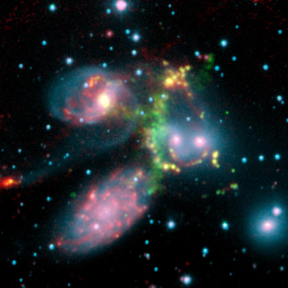 In infrared by SST.